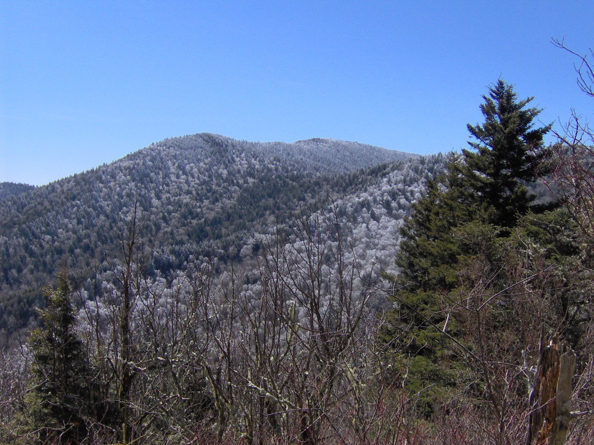 Mount Guyot in the Great Smoky Mountains, looking south from the Appalachian Trail (just past the Snake Den Ridge Trail intersection, near 6000 feet/1828m). The true summit is the one in the distance, on the right. The slope of Old Black is in the foreground on the right.